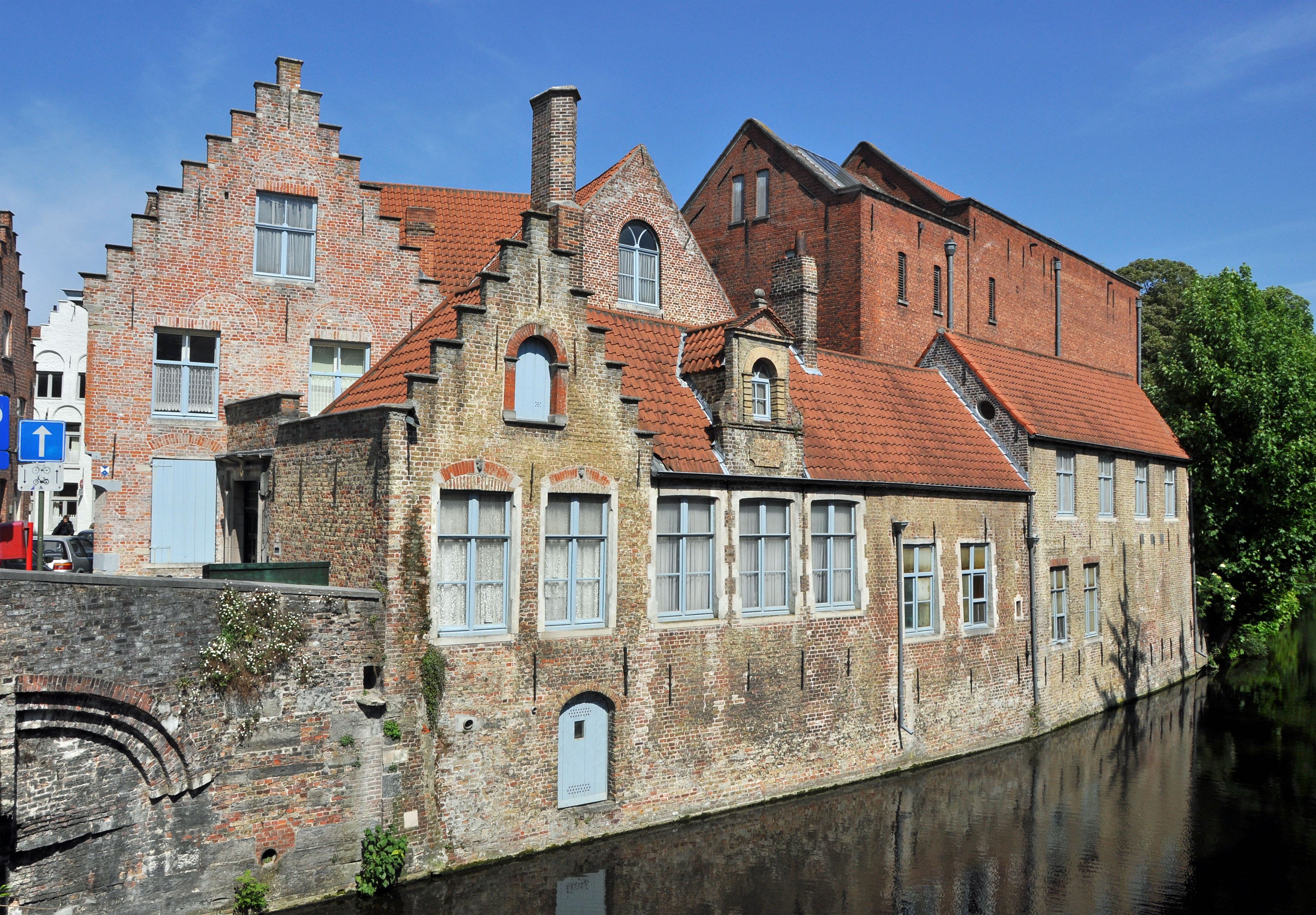 Bruges (Belgium): Masonic hall of the lodge La Flandre